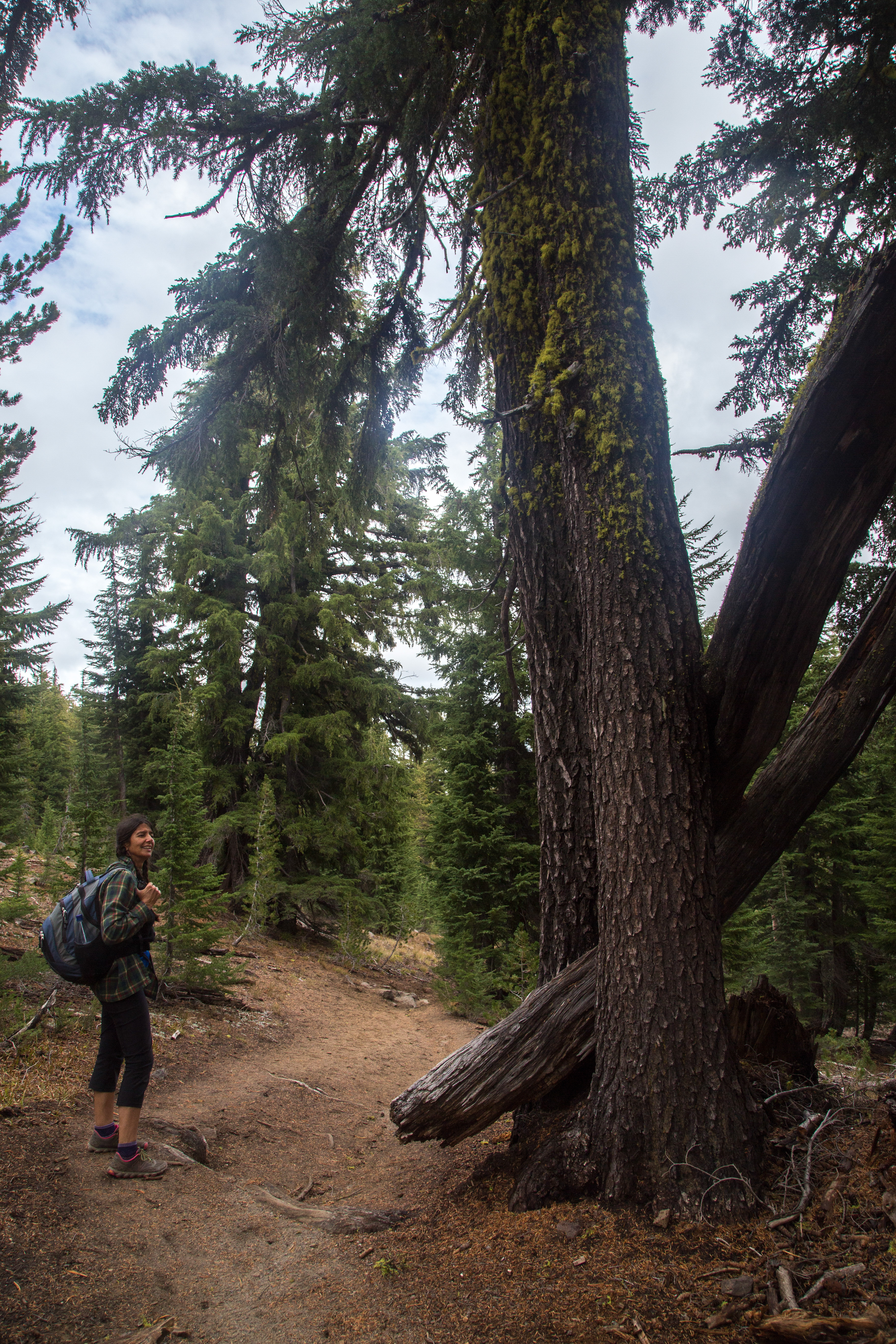 Tam McArthur Rim Trail to Broken Top at Three Creeks Lake near Sisters, OR in the Three Sisters Wilderness.